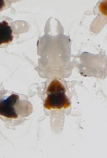 Gnathia marleyi - gnathiids male. The contrast, gamma and sharpness of his image has been modified. No colour alteration was made.